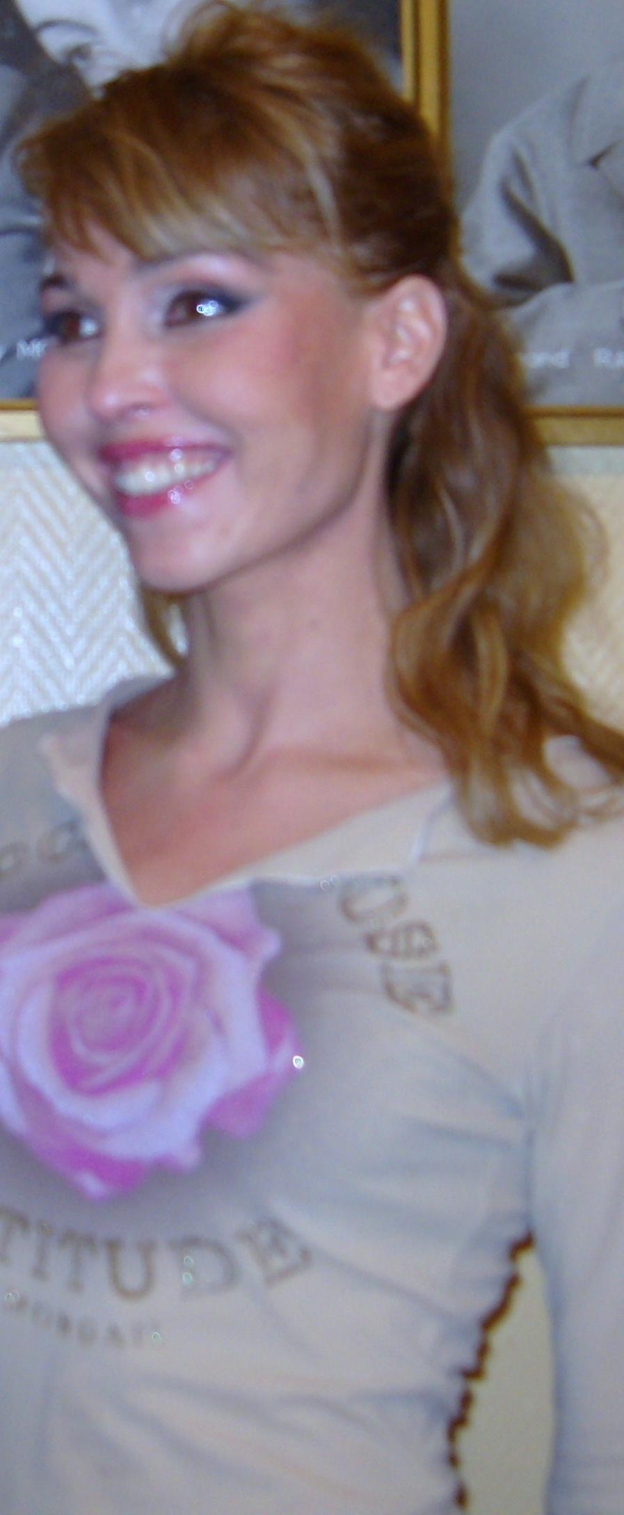 Indra, Swedish singer